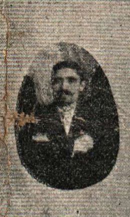 Velko Mikov, IMARO